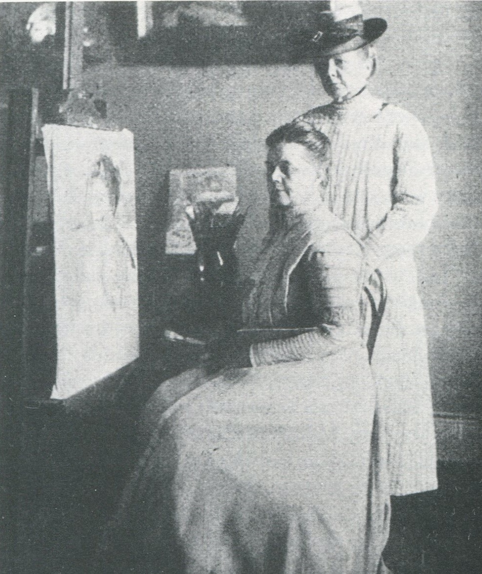 Molly and Helene Cramer, painters from Hamburg